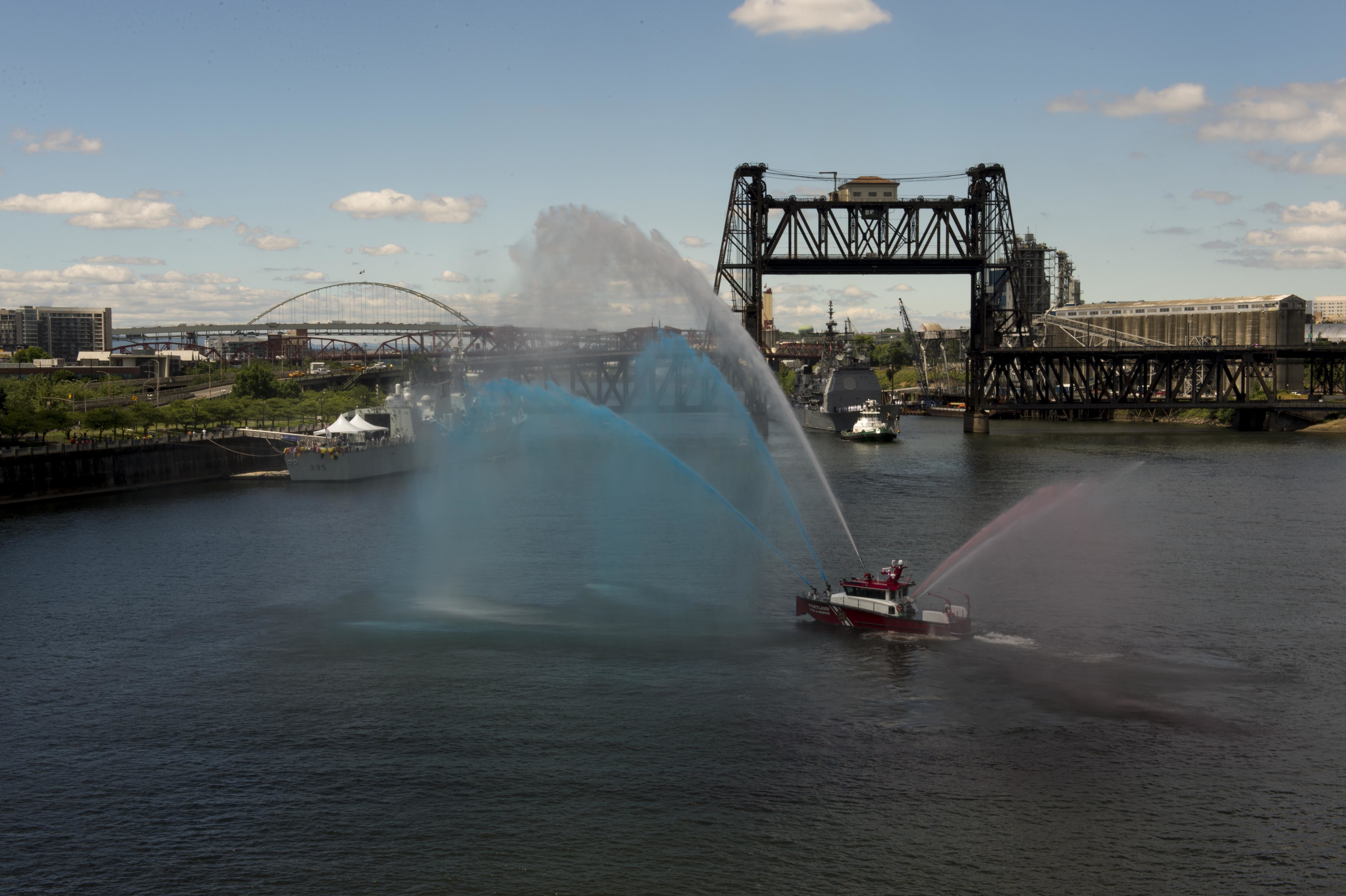 150604-N-MN975-042 PORTLAND, Ore. (June 4, 2015) A Portland Fire and Rescue boat welcomes guided-missile cruiser USS Cape St. George (CG 71) as it prepares to moor in Portland Harbor to kick off the 106th annual Portland Rose Festival and Fleet Week. The festival and Portland Fleet Week are a celebration of the sea services, with Sailors, Marines and Coast Guardsmen from the U.S. and Canada making the city a port of call. (U.S. Navy photo by Mass Communication Specialist 2nd Class Justin A. Johndro/RELEASED)